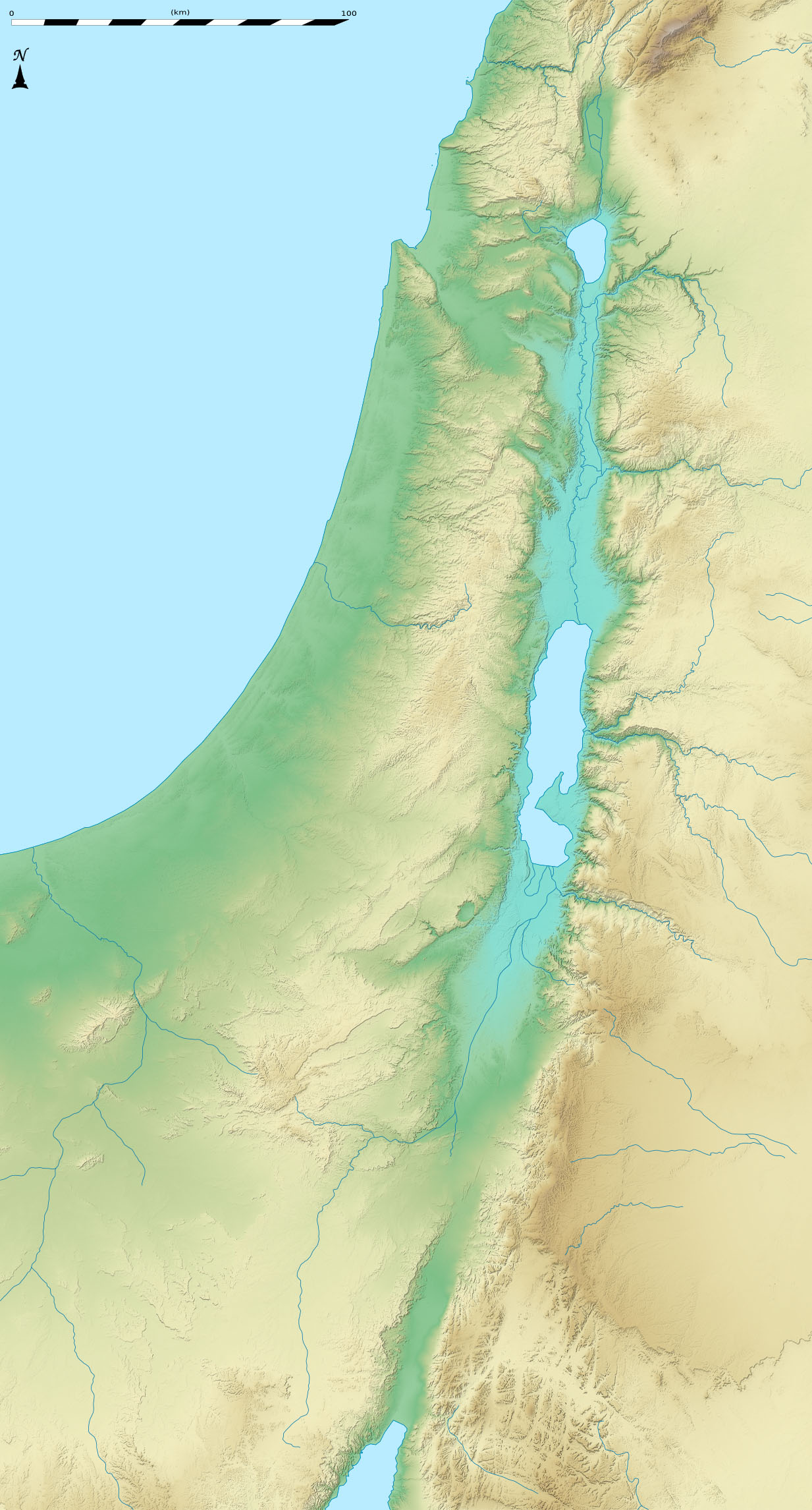 Blank location map of Israel (no boundaries).